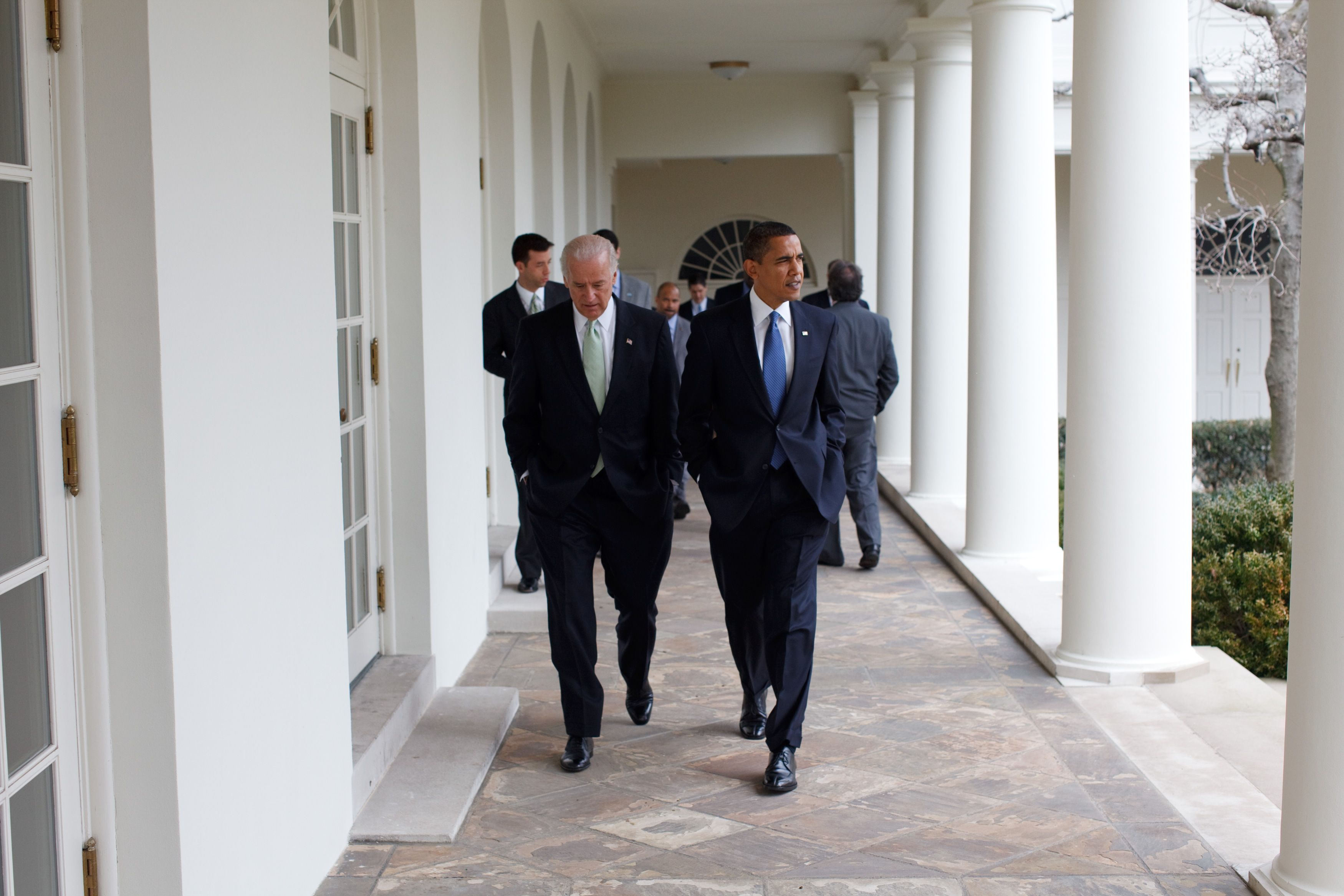 President Barack Obama walking with Vice President Joe Biden in The White House